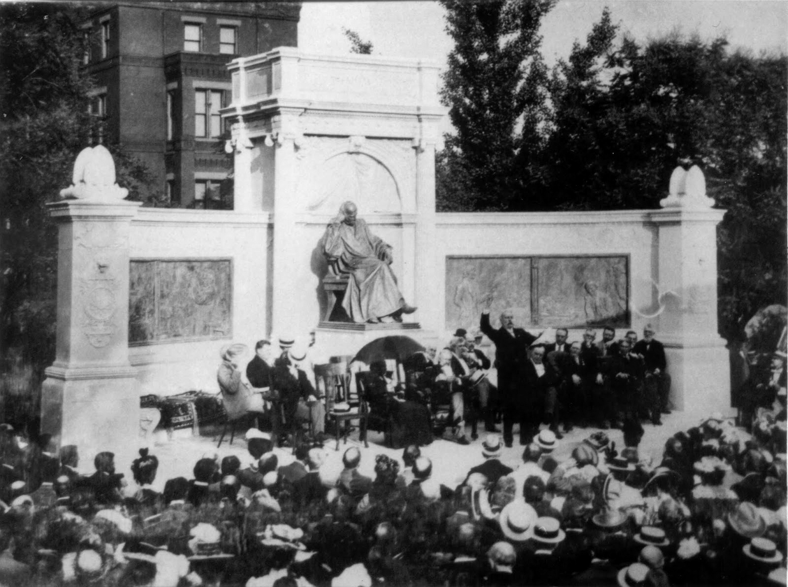 Dedication of the Samuel Hahnemann Monument in Washington, D.C.